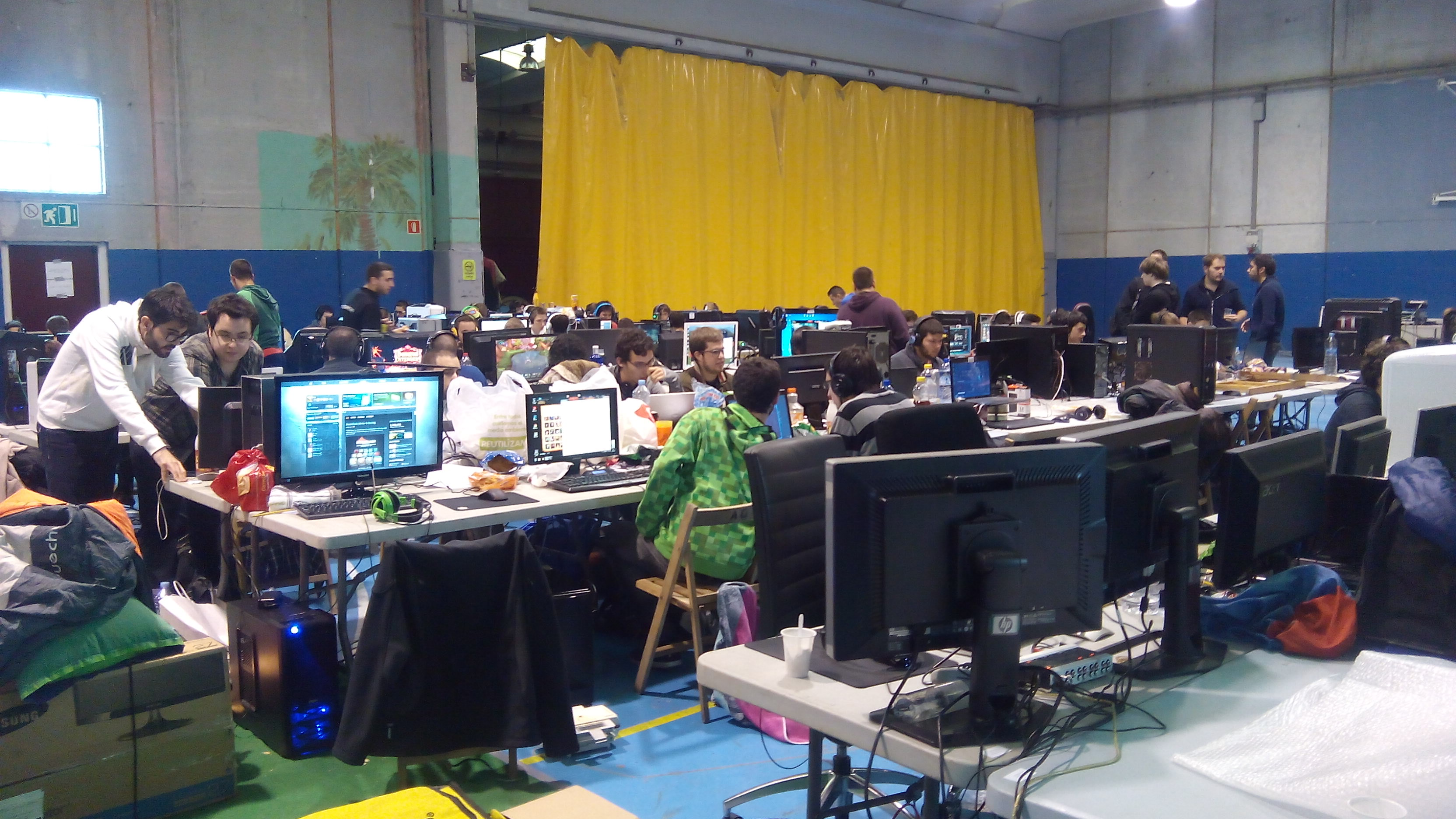 Image of a LAN Party in Olot (La Garrotxa) 2014 volcanica.cat